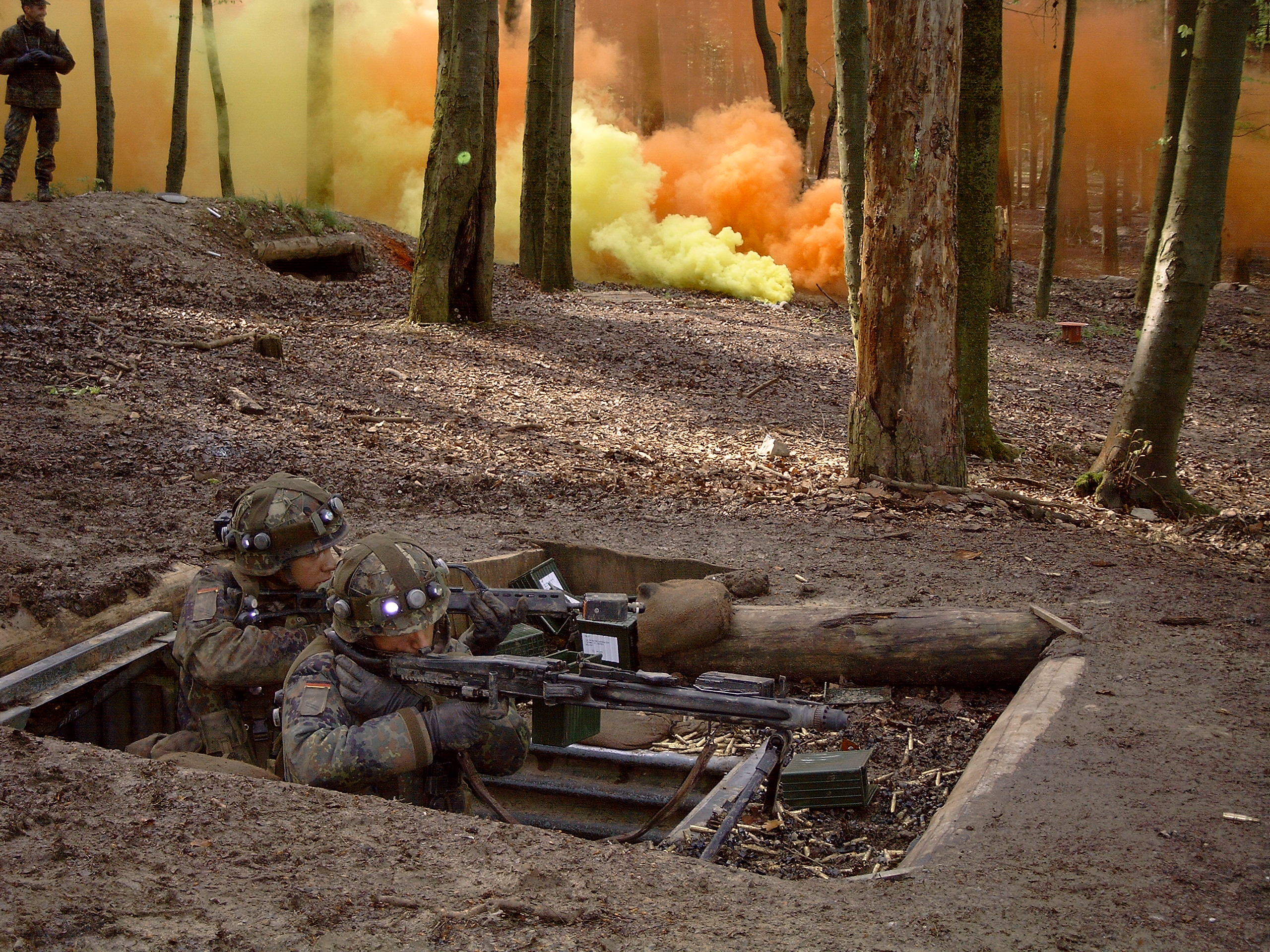 German Paras during the Officer Training Course at the Infantry School Hammelburg. 'Defence Forest' with simulation system AGDUS. MG 1 and MG 2 deployed in the focus of the group.